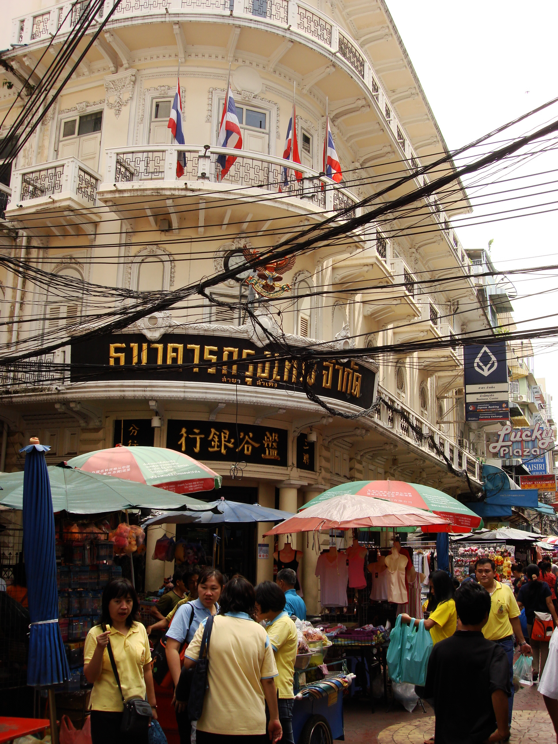 One of the oldest commercial buildings